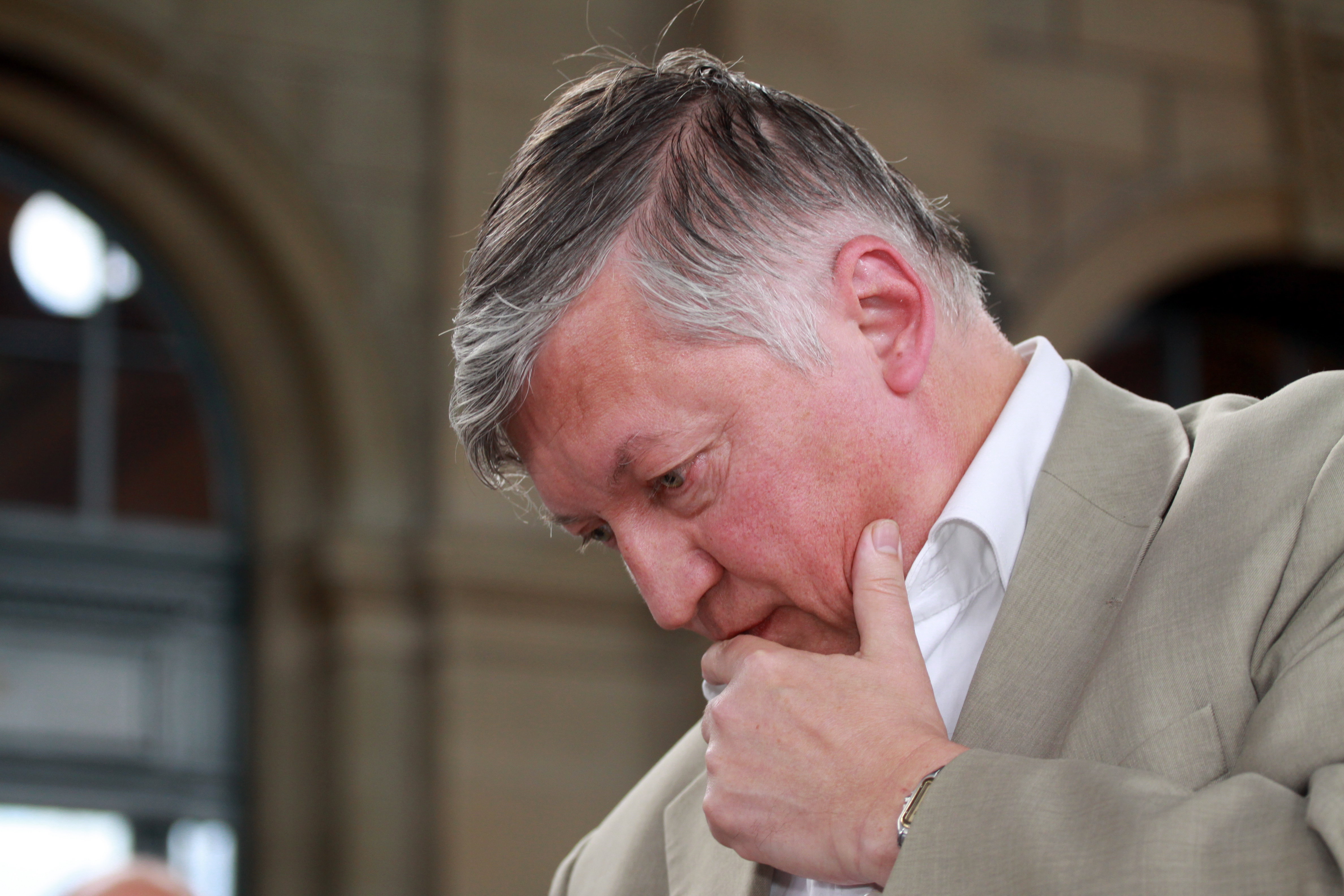 World Chess Champion Anatoly Karpov, Russia